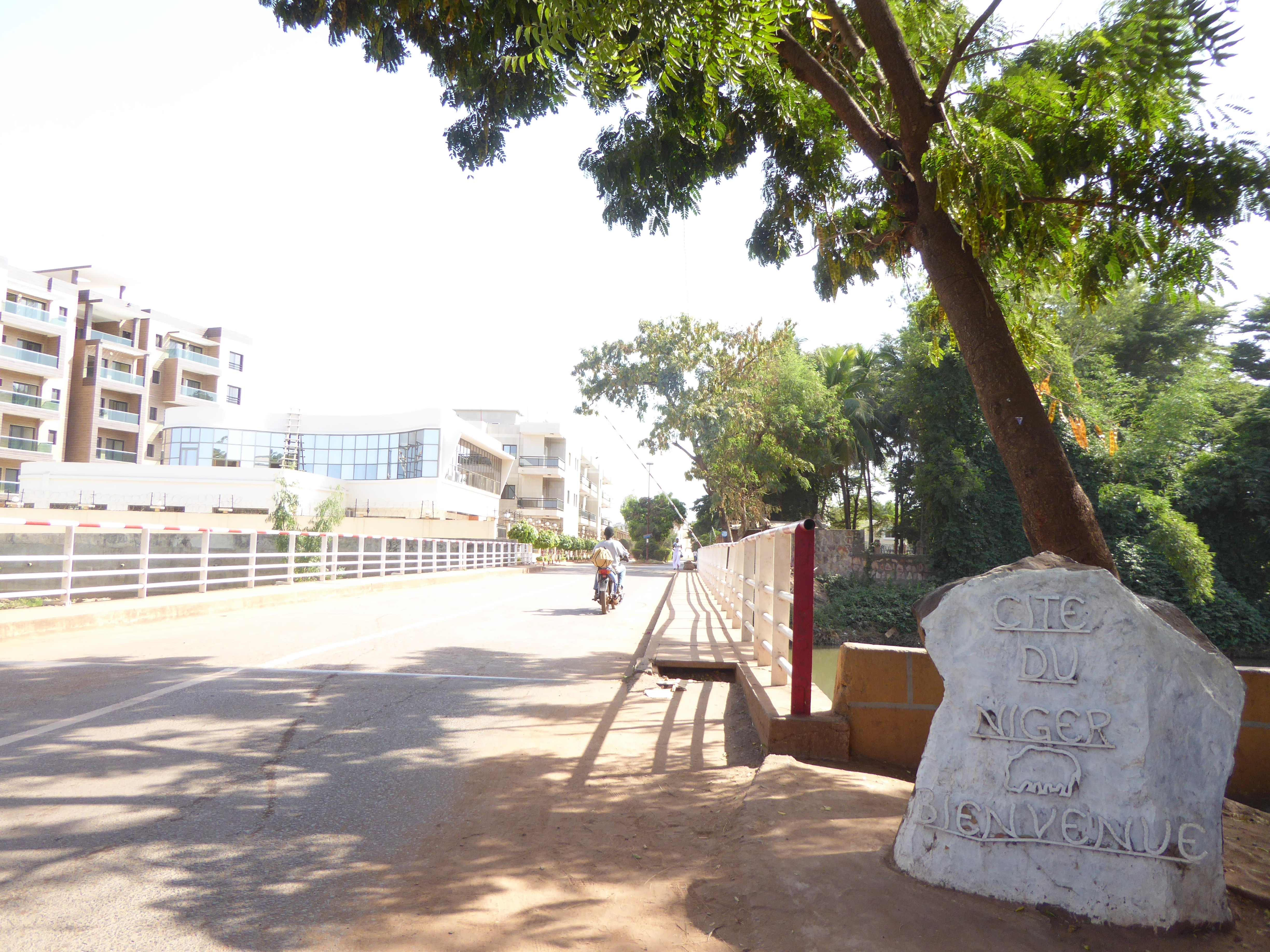 bridge at th entry of the Cité du Niger in Bamako